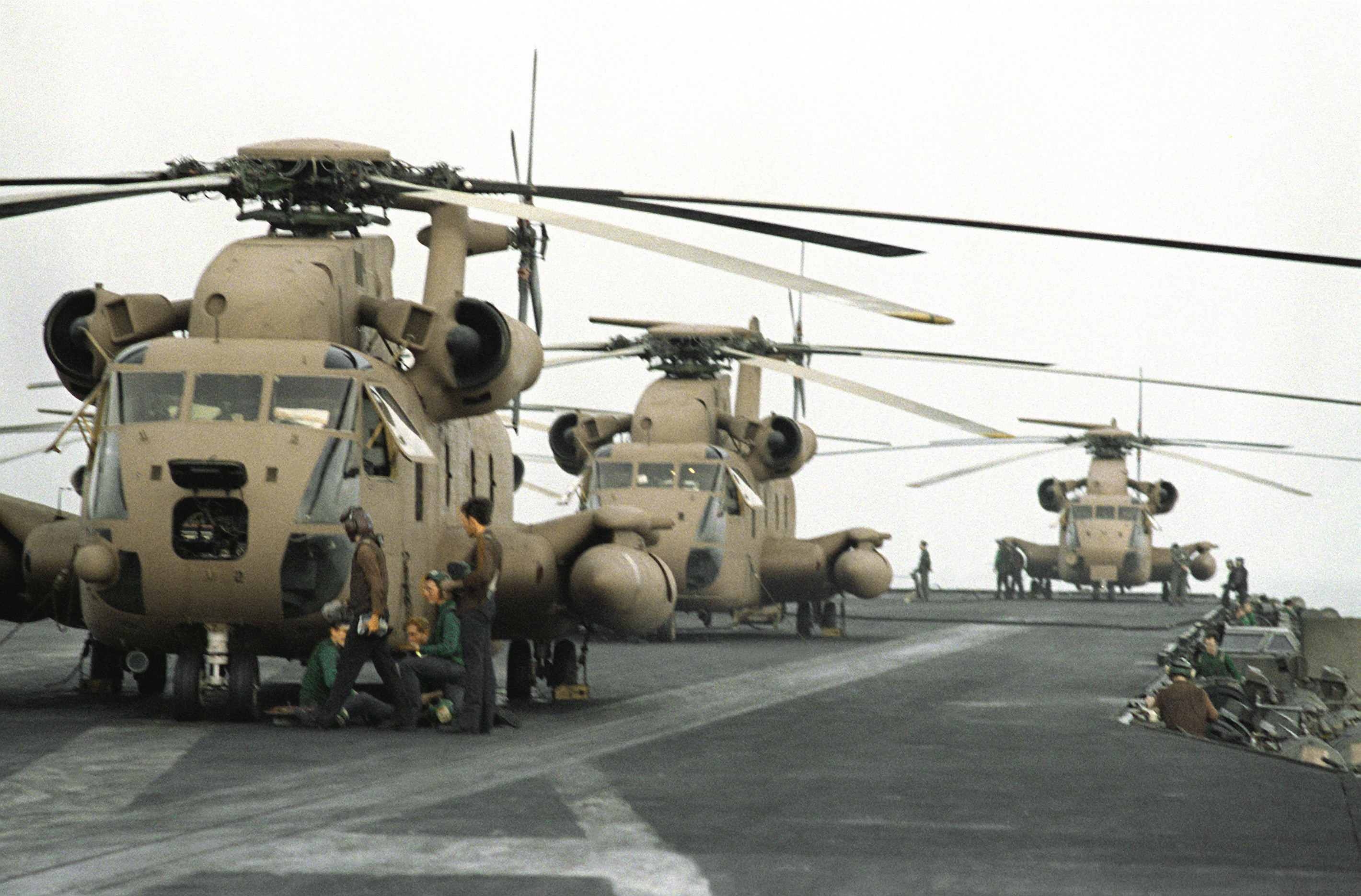 Three RH-53 Sea Stallion helicopters are lined up on the flight deck of the nuclear-powered aircraft carrier USS NIMITZ (CVN-68) in preparation for Operation Evening Light, a rescue mission to Iran